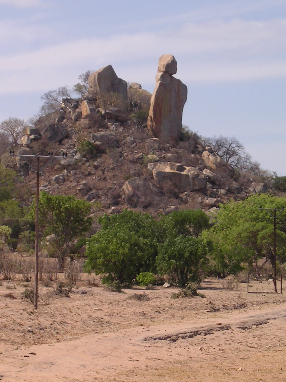 Castle kopje in Gwaranyemba, Gwanda District, Zimbabawe